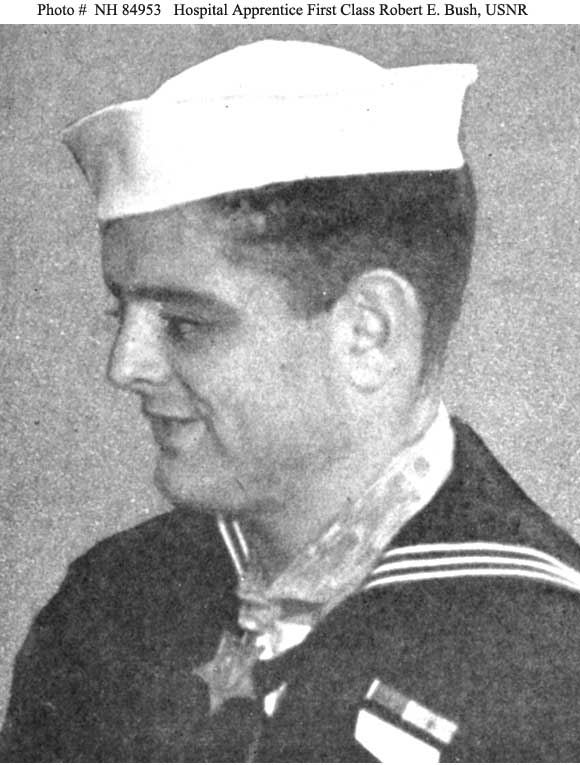 This is a publicity news photograph of President Truman presenting the Medal of Honor to Robert E. Bush just after the end of World War II.